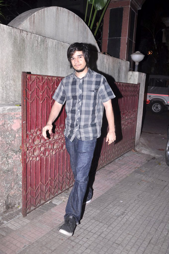 Vivaan Shah at 'Gangs Of Wasseypur' screening